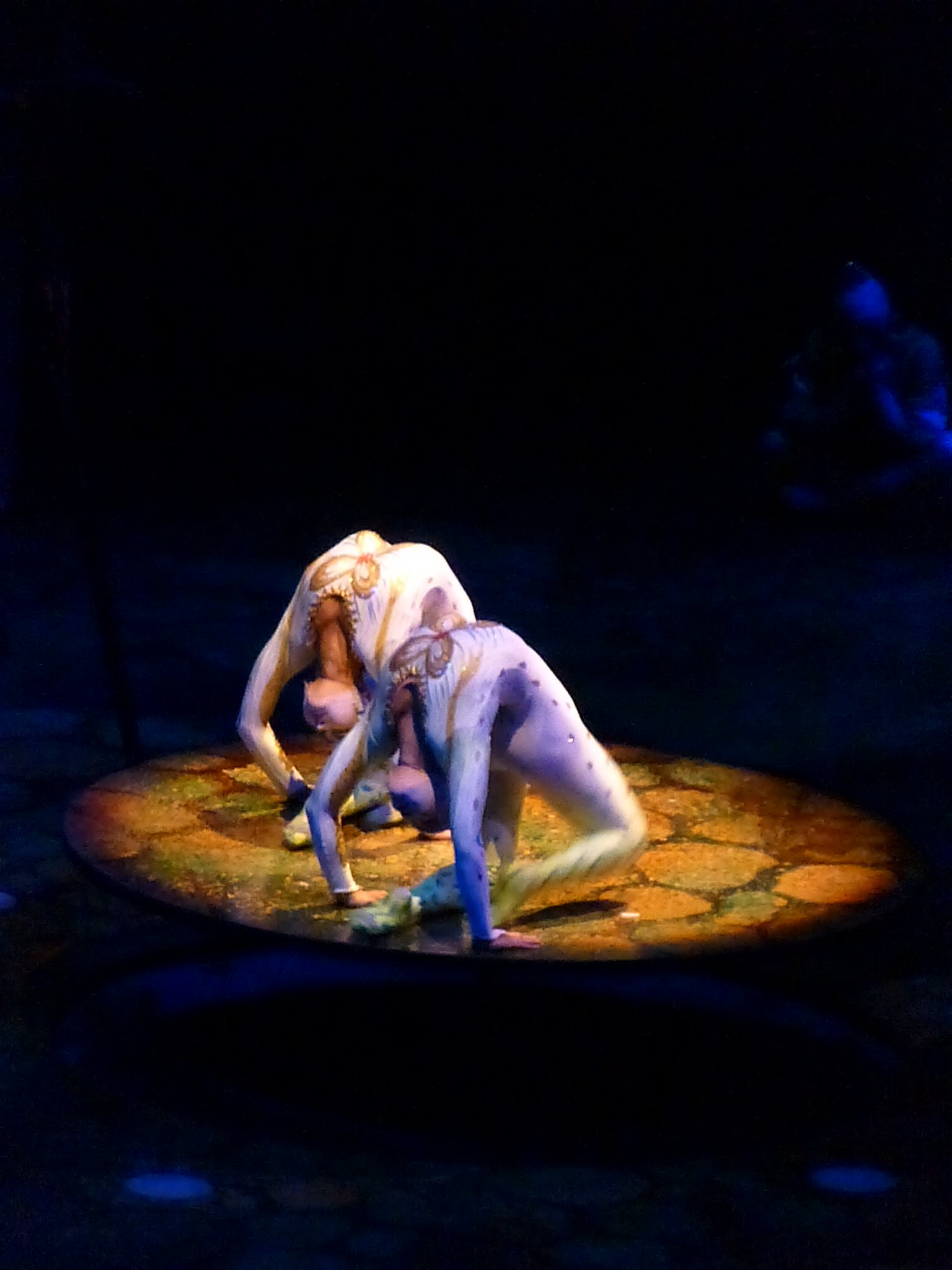 Two Contortion artists create graceful and lithe figures and movements with their extreme flexibility and balance. Cirque du Soleil 2012 Alegría, Istanbul, Turkey